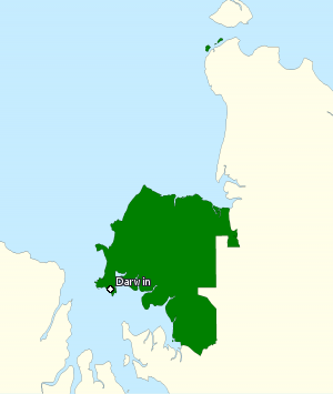 This image incorporates data that is: © Commonwealth of Australia (Australian Electoral Commission) 2009 Division of Solomon 2010